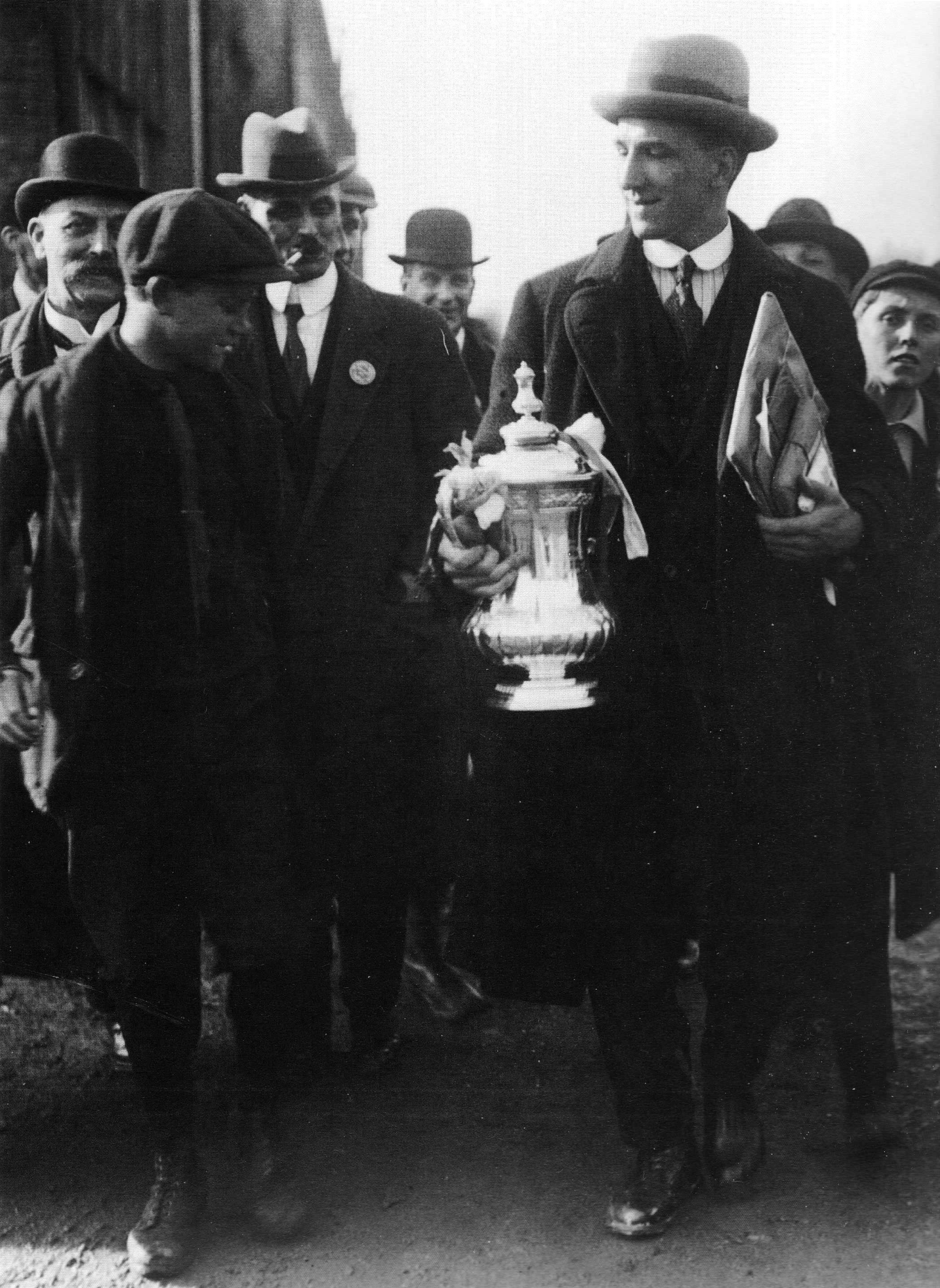 Image of Arthur Grimsdell, of the Tottenham Hotspur F.C., with the FA Cup in 1921.